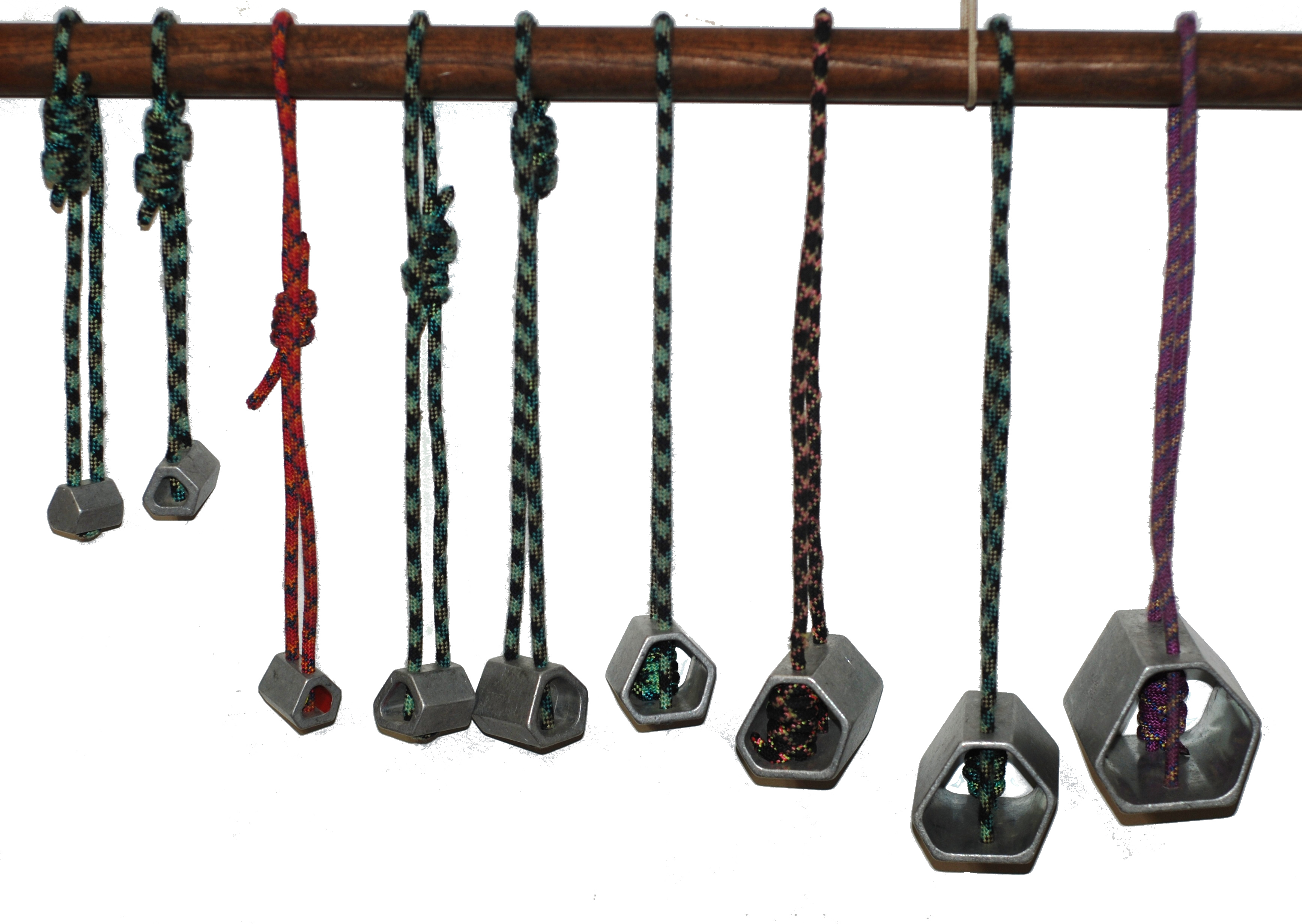 Black Diamond hexes - type of climbing nuts